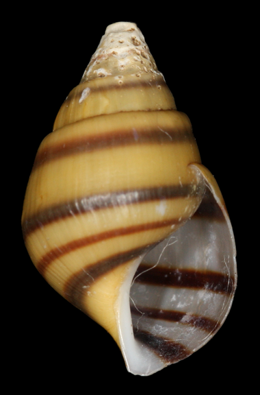 Lectotype of Elimia clara (MCZ 072329)